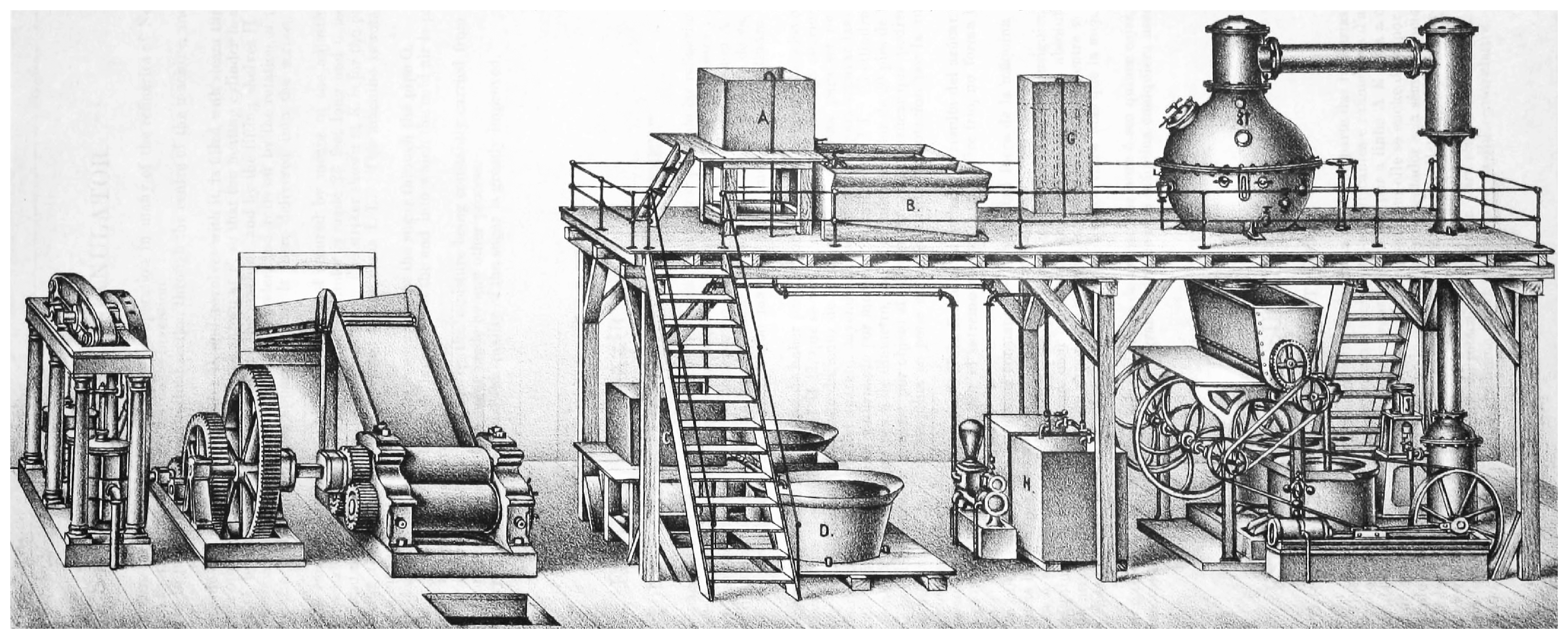 Sugarcane Mill and Sugar Boiling Apparatus, Morris, Tasker & Co. Illustrated Catalogue, Pascal Iron Works Philadelphia, Tasker Iron Works New Castle, Del., Tenth Edition, June 1st, 1871 - The Cane Juice coming from the mill is pumped into the tank A, passing from there into the clarifiers B (the bottom of which are covered with horizontal pipes, so arranged as to receive either exhaust or direct steam), where, after adding the lime-water, the Cane Juice is boiled to 15 degrees Baume, and being carefully skimmed, is run off into tank C, which holds enough to fill evaporators D, the bottom being covered with a coil sufficiently large to heat the Cane Juice to the boiling point, when it is again carefully skimmed and conducted into a tank below the ground floor, being pumped from there into bag-filter G, which delivers clean syrup into tank H. From here it is drawn by vacuum into the Strike Pan, where it is boiled (in vacuum) up to the striking point, then carried into the Strike Heater, where it is allowed a sufficient time for cooling, after which it is passed through the Centrifugal Machines, which are below the Heater. The boiling in the Vacuum Pan and Clarifiers is materially assisted by the exhaust steam from the Engine. The Furnaces under the Boilers are arranged to burn Bagass, which makes a very economical and intense heat. The Defecators and Evaporators being in duplicate gives an opportunity of cleaning one while ther other is boiling.